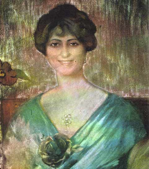 Portrait of Berthe Bénichou-Aboulker (1888-1942) in her youth, the first Jewish woman to be published in Algeria